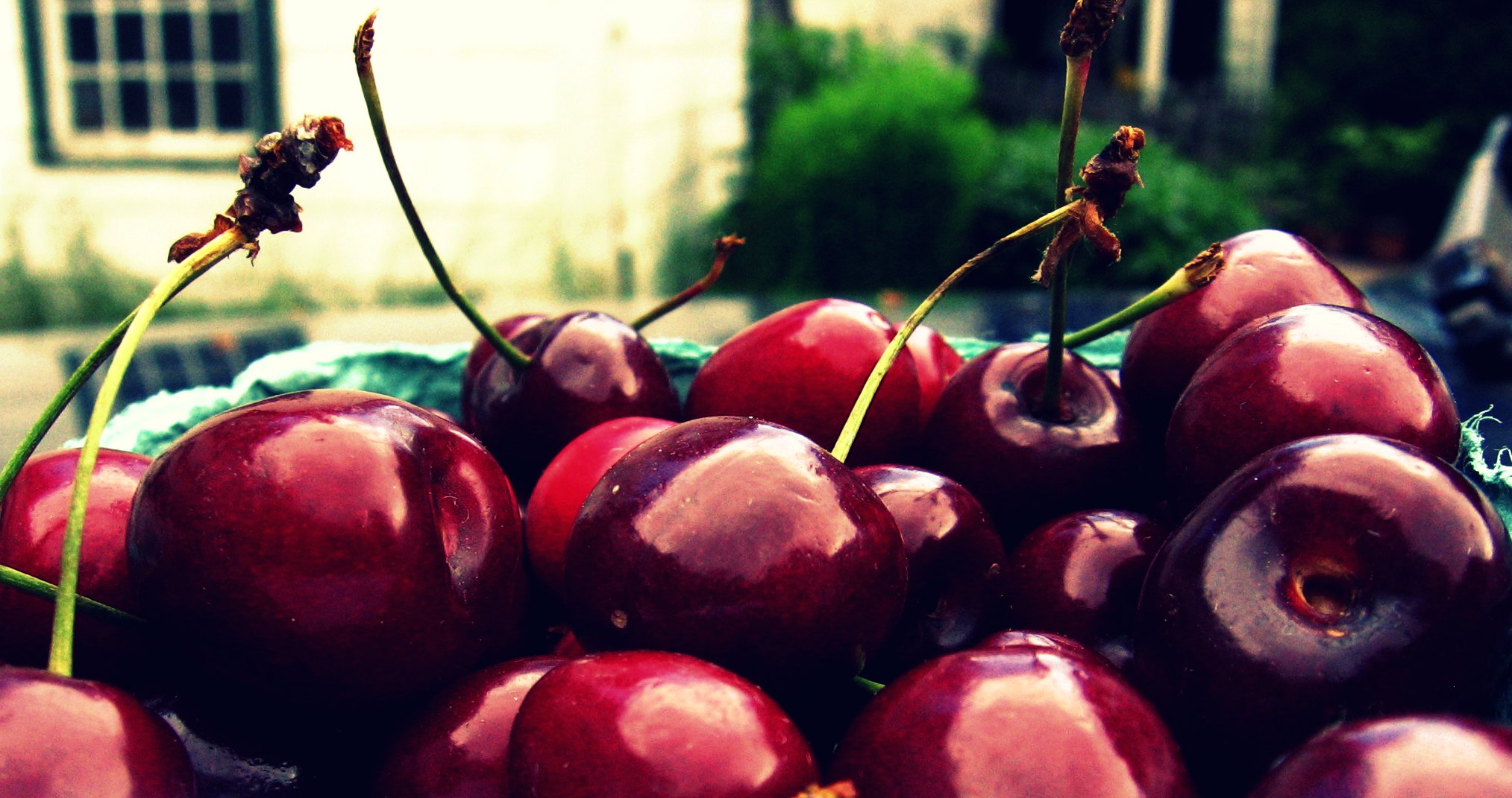 from Champlain Orchards in Shoreham, Vermont